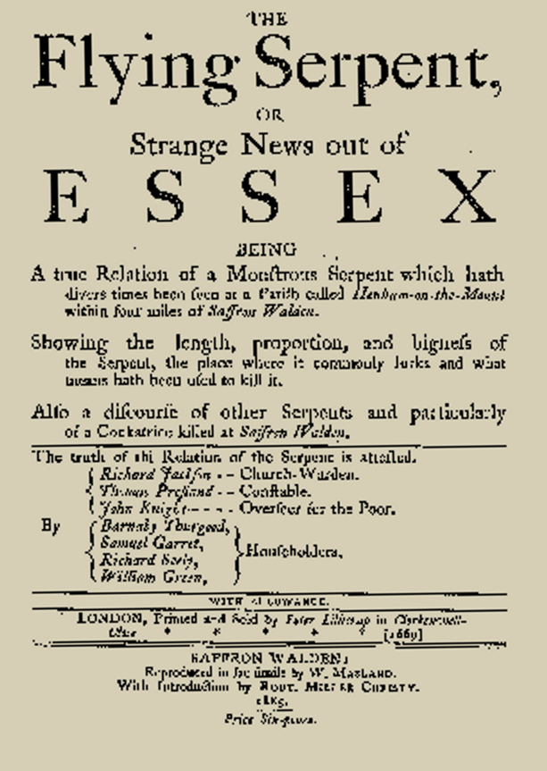 The Flying Serpent. Or: Strange News out of Essex. Being: A true Relation of a Monstrous Serpent which hath divers times been seen at a Parish called Henham-on-the-Mount within 4 miles of Saffron Walden. Showing the length, proportion and bigness of the Serpent, the place, where it commonly lurks, and what means hath been used to kill it. Also a discourse of other Serpents, and paticularly of a cocatrice killed at Saffron Walden. Pamphlet about the Henham Dragon.